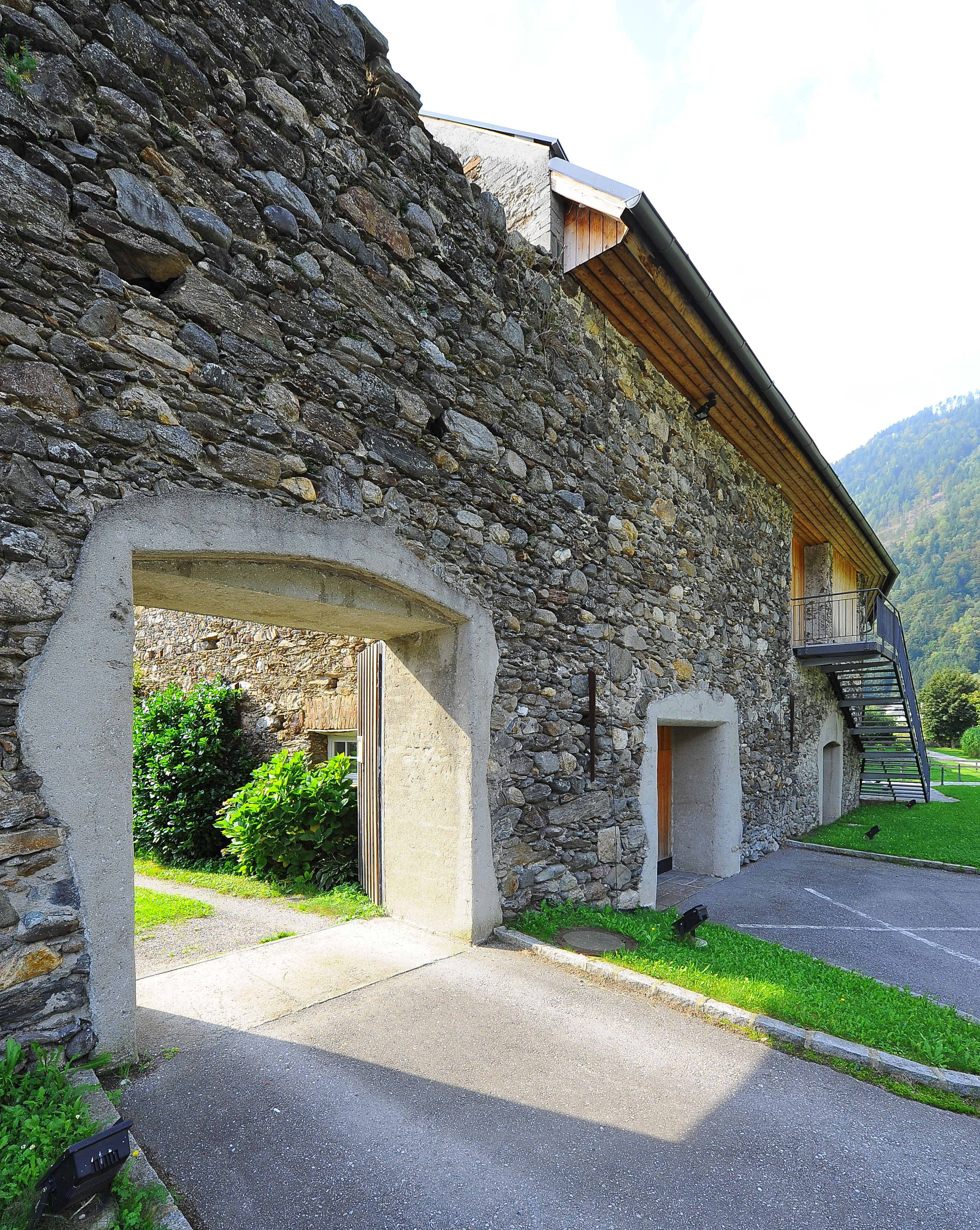 Part of the fortification on Marktplatz #18a in Sachsenburg, municipality Sachsenburg, district Spittal an der Drau, Carinthia / Austria / EU